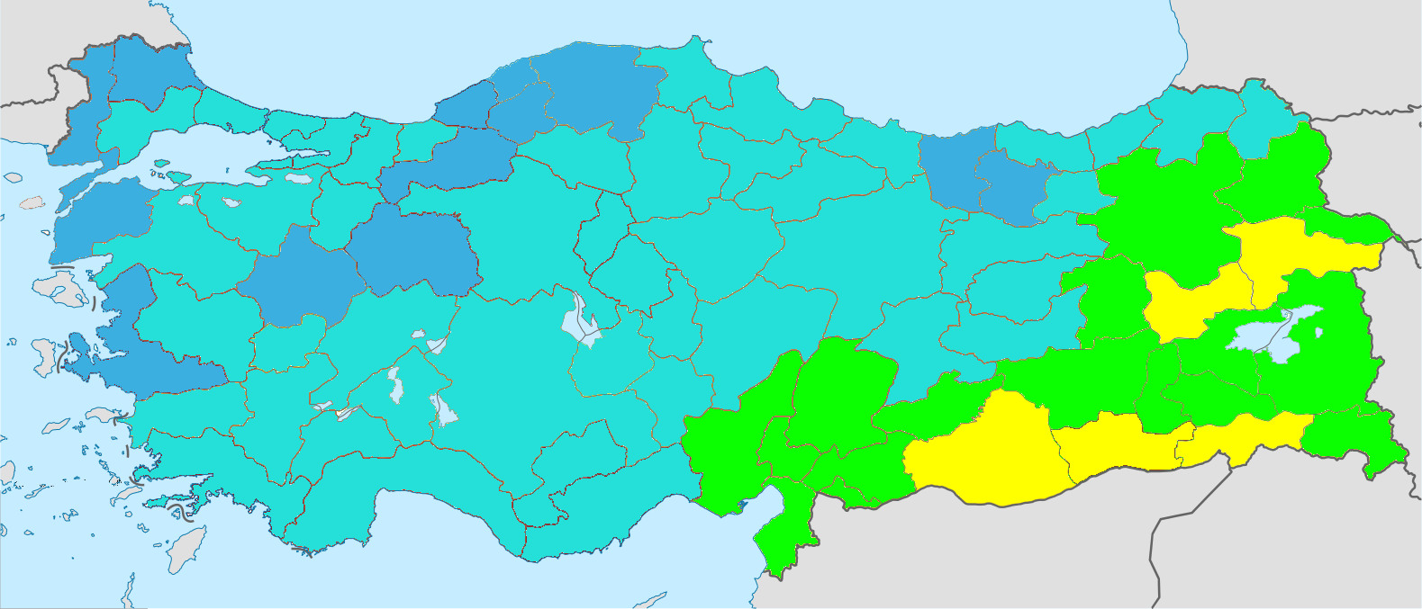 Turkey total fertility rate by province 2019Română: Ratele natalităţii în Turcia după provincie, 2019.